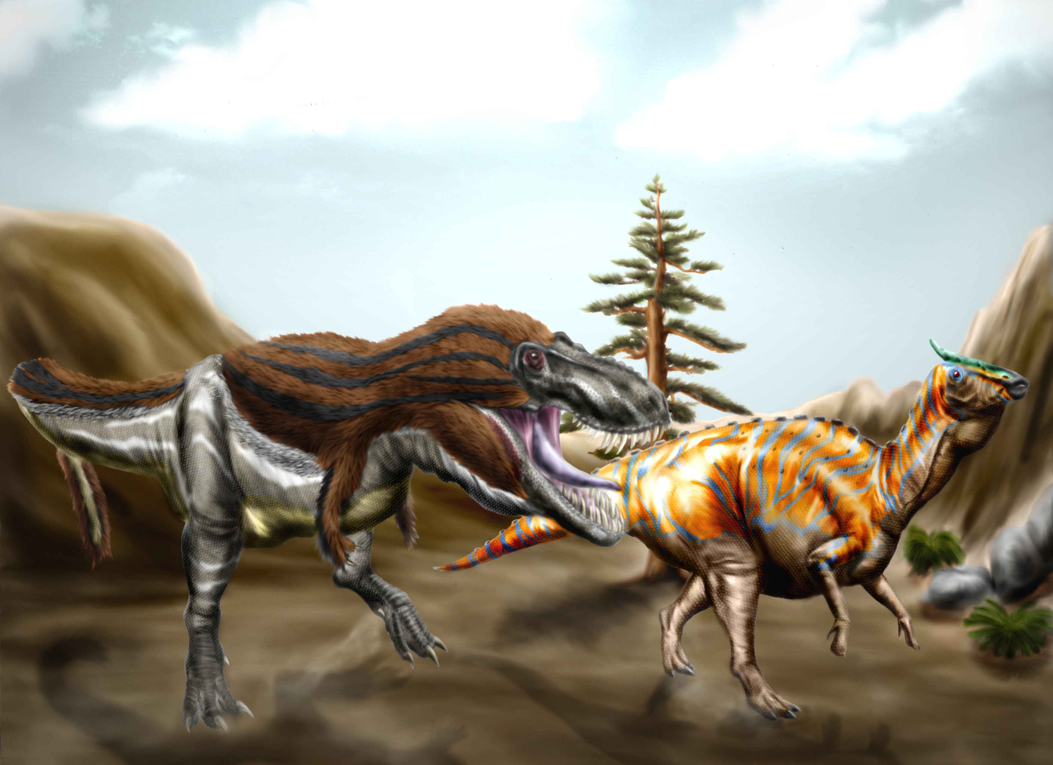 The tyrannosaurid Tarbosaurus baatar pursuing the hadrosaurine Saurolophus angustirostris in the Late Cretaceous of the Nemegt Formation.